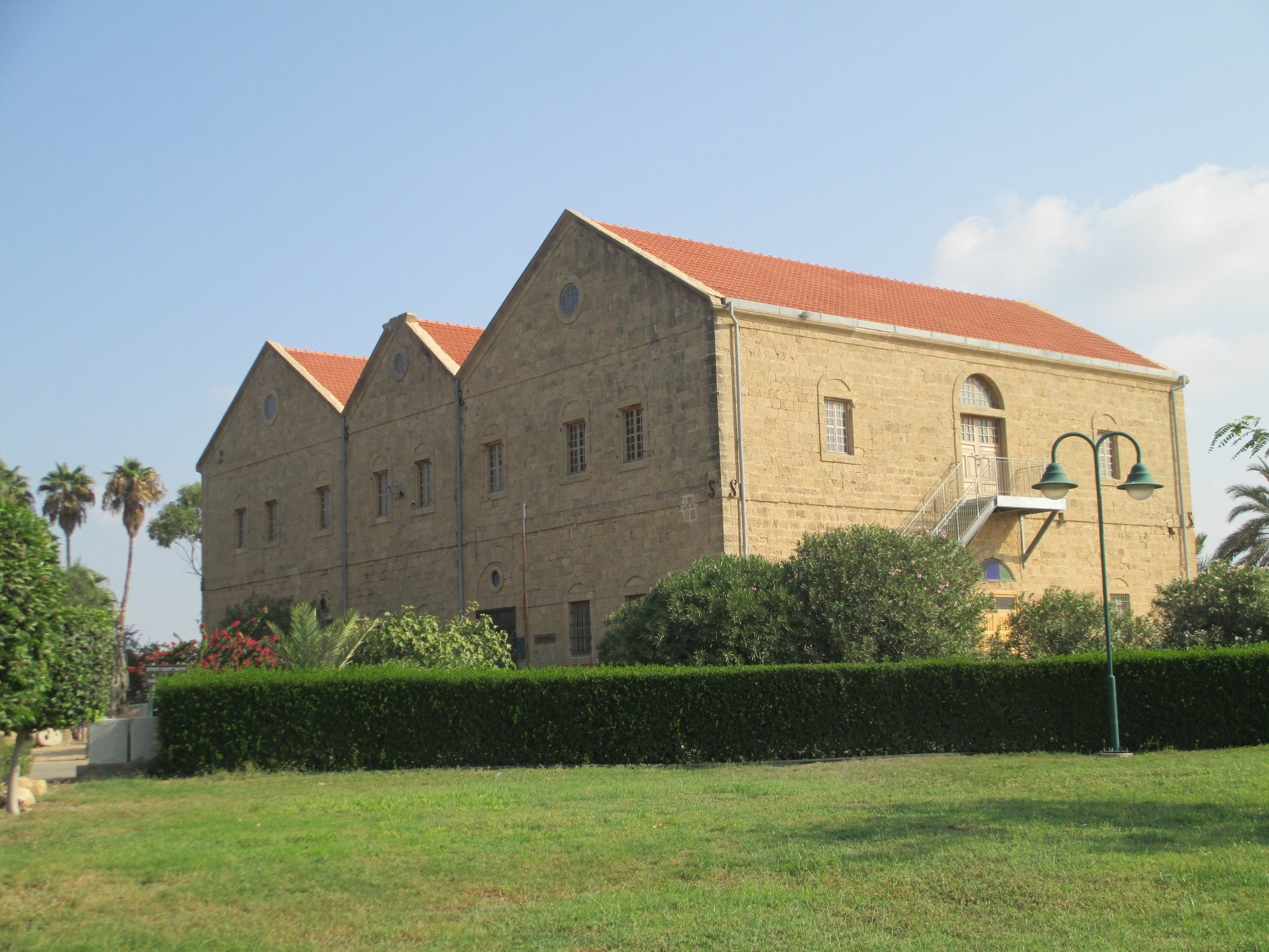 The Mizgaga museum in Kibbutz Nahsholim